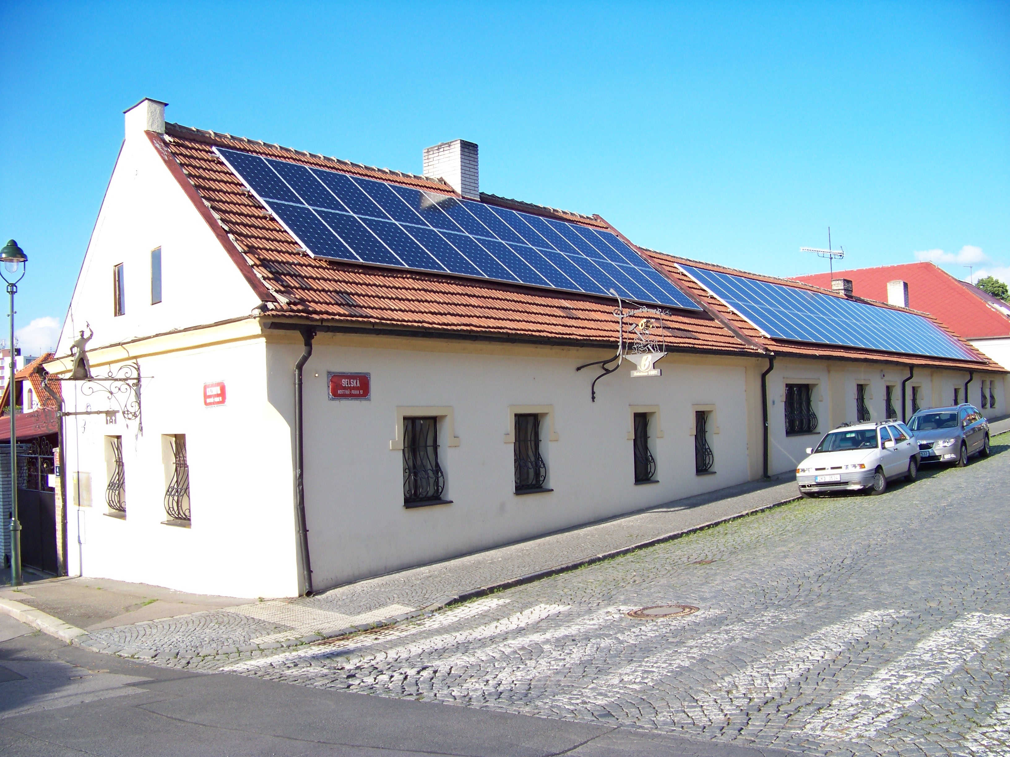 Hostivař, Prague, the Czech Republic. Selská street.